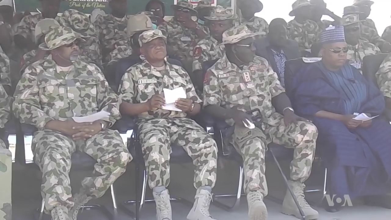 For the first time in years, the Nigerian Army conducted military drills in the Sambisa Forest which previously had been a stronghold for Boko Haram. For VOA, Hussaina Muhammad was given a rare access to the exercises in Maiduguri. Salem Solomon has the report.